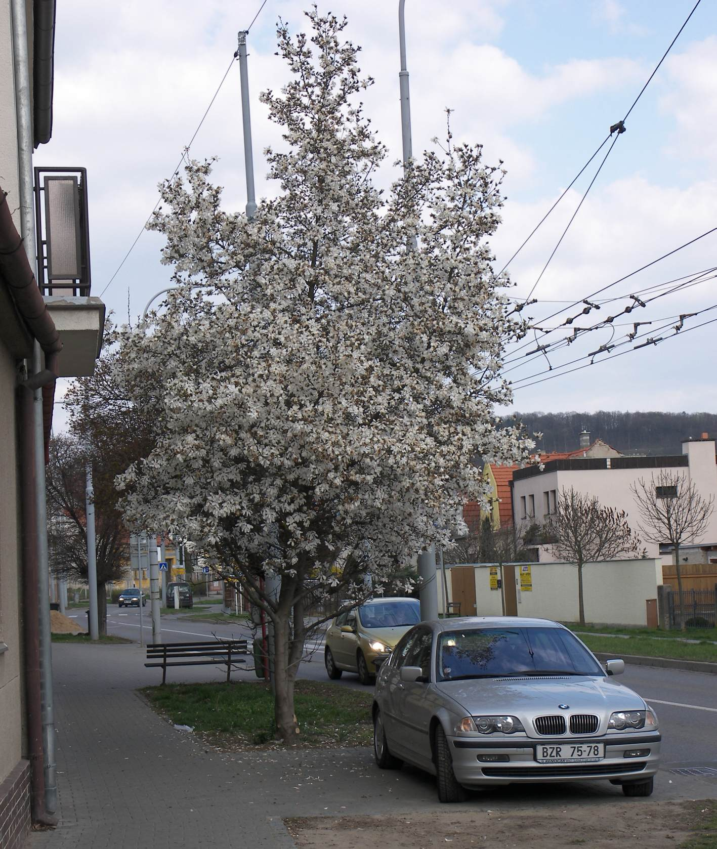 Magnolia stellata, šácholan, city Brno Komín, street Branka, 2008